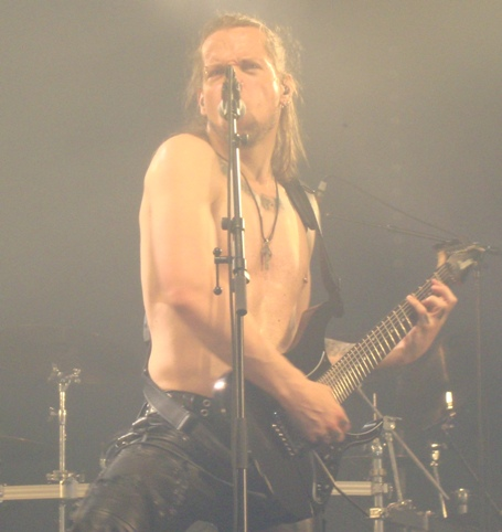 Heri Joensen - Hellfest 2013